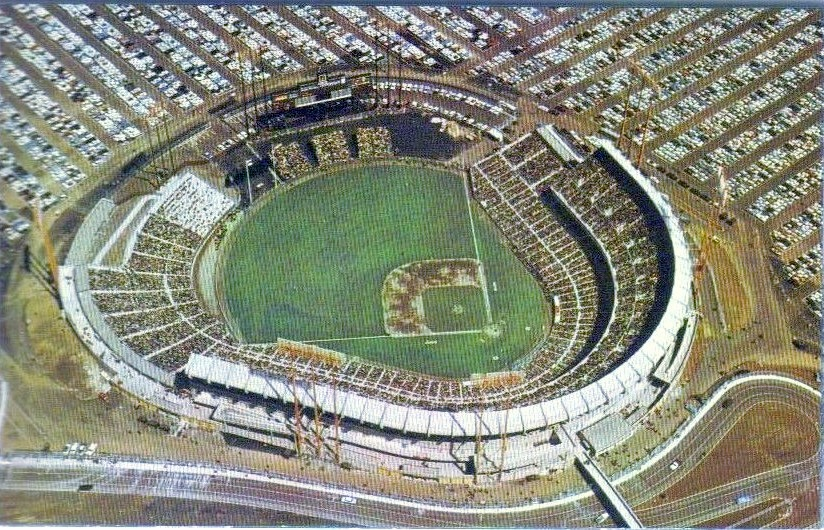 A color photochrome postcard depicting an aerial view of Candlestick Park as seen shortly after it was built in its original open grandstand configuration. The back of the postcard reads: CANDLESTICK PARK, SAN FRANCISCO, CALIFORNIA Finished and dedicated in 1960, built at a cost of $13,000,000. Home of the San Francisco Giants Baseball Club, which moved from New York City in 1958. Seating capacity is nearly 45,000 and parking lot for about 9,000 automobiles. Located within the city limits. NATURAL COLOR by Mike Roberts BERKELEY 2, CALIF. E. F. Clements, 85 Bluxome St., San Francisco 7, Calif. C10437–Color photo by Aero Portraits